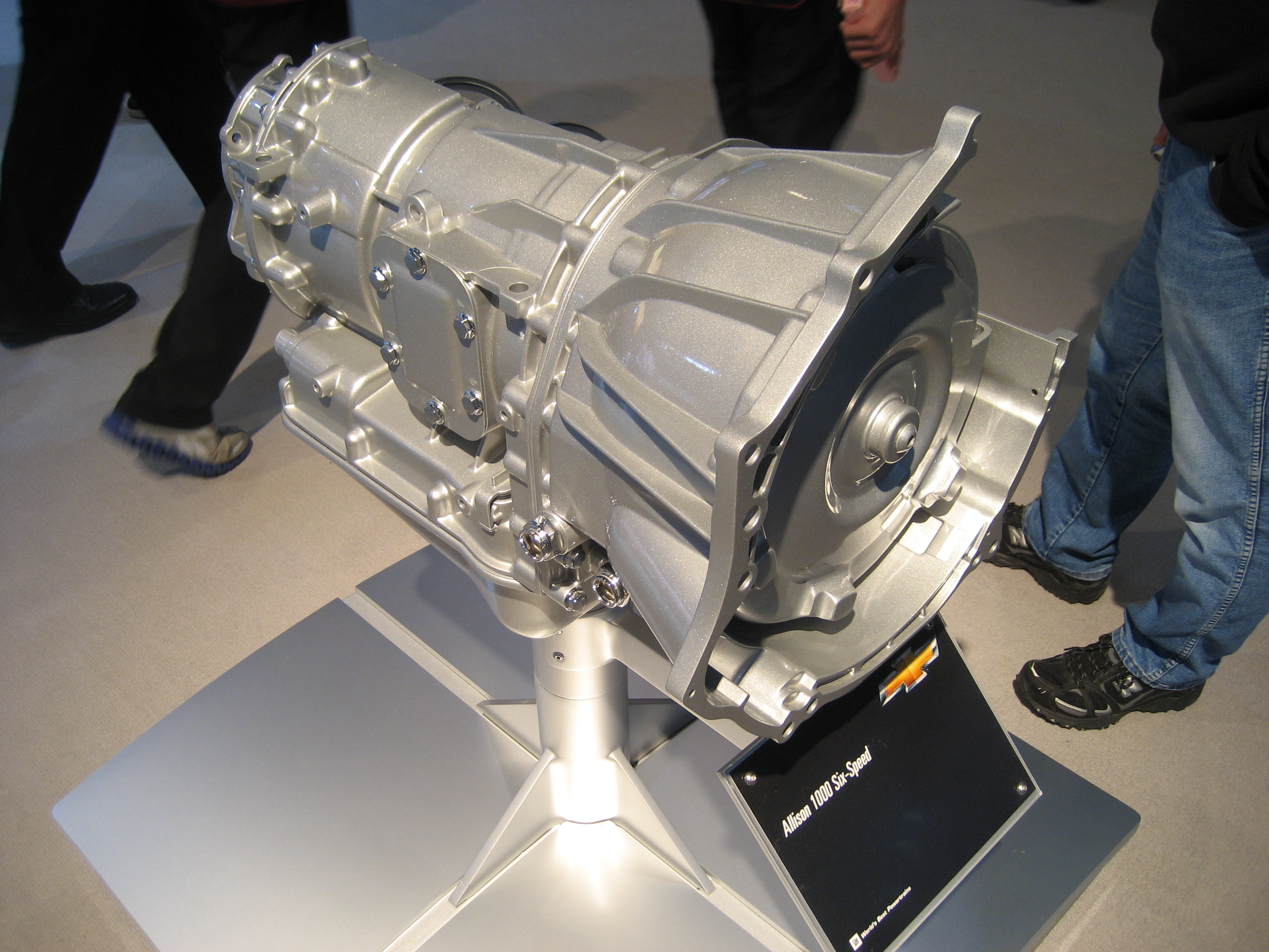 Allison 1000 demo unit